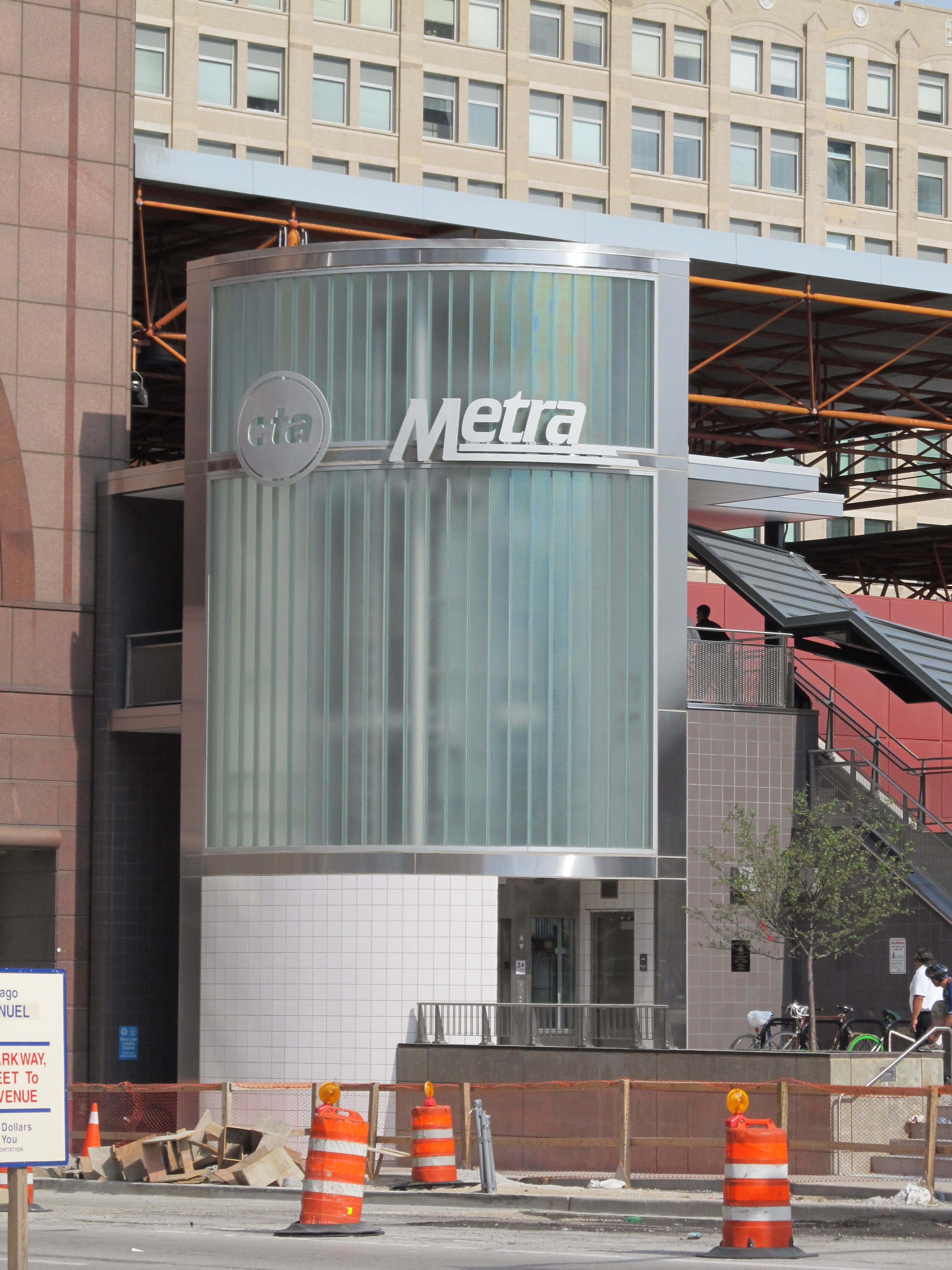 LaSalle/Congress Intermodel Transfer Center Camera: Canon PowerShot SX130 IS License on Flickr (2011-08-02): CC-BY-SA-2.0 Flickr tags: Chicago, Illinois, Cook County, Metra, Chicago Transit Authority, CTA